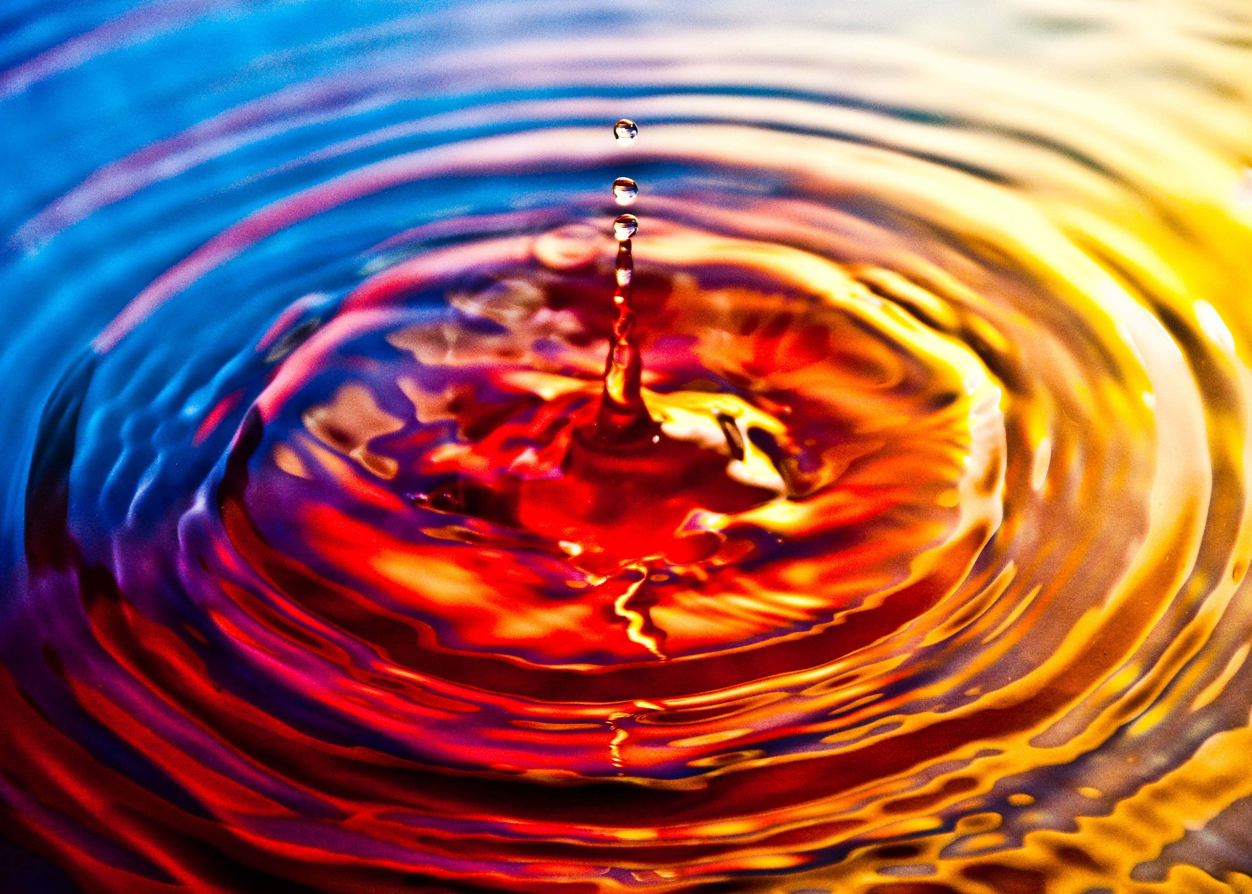 Ripple effect on water.